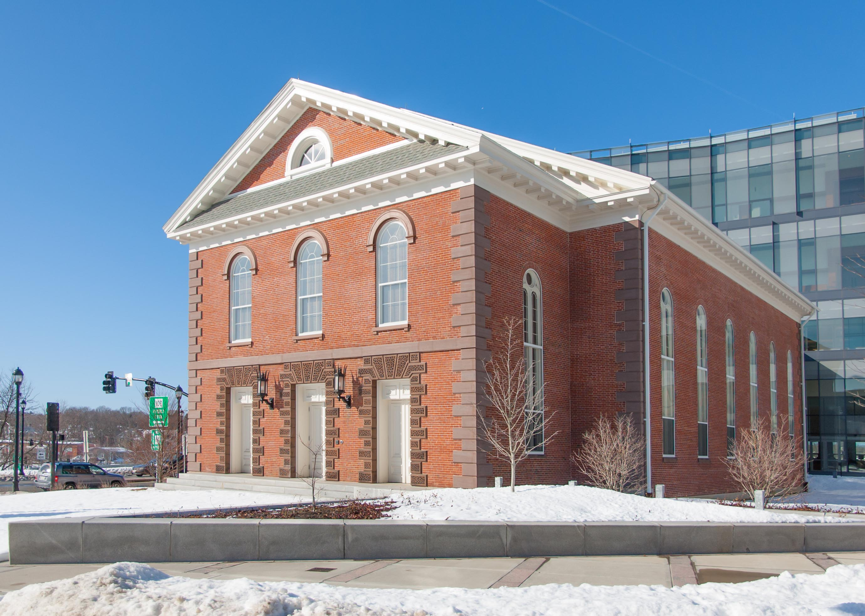 Formerly the First Baptist Church, est. 1806, this is now the law library for the new courthouse in Salem, Massachusetts